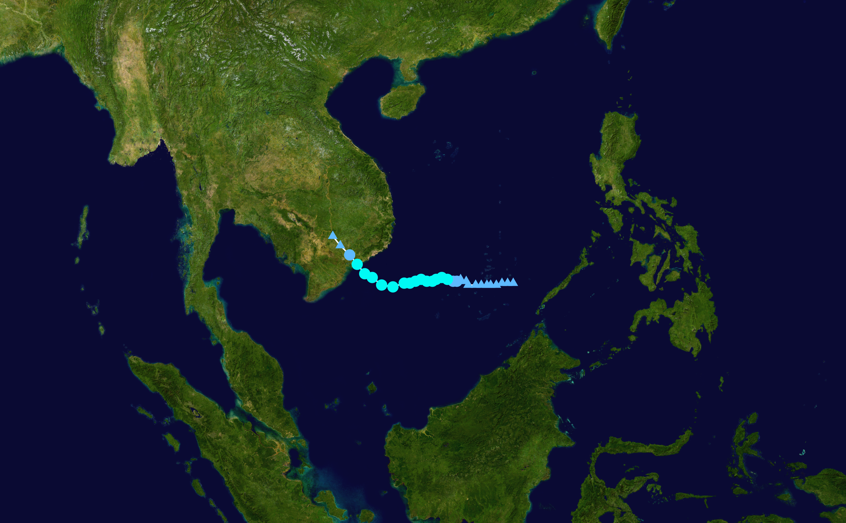 Track map of Tropical Storm Pakhar of the 2012 Pacific typhoon season. The points show the location of the storm at 6-hour intervals. The colour represents the storm's maximum sustained wind speeds as classified in the Saffir–Simpson scale (see below), and the shape of the data points represent the nature of the storm, according to the legend below. Saffir–Simpson scale Tropical depression≤38 mph≤62 km/h Category 3111–129 mph178–208 km/h Tropical storm39–73 mph63–118 km/h Category 4130–156 mph209–251 km/h Category 174–95 mph119–153 km/h Category 5≥157 mph≥252 km/h Category 296–110 mph154–177 km/h Unknown Storm type Tropical cyclone Subtropical cyclone Extratropical cyclone / Remnant low / Tropical disturbance / Monsoon depression